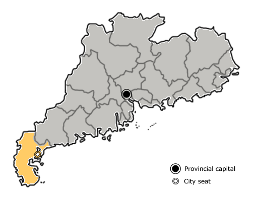 The prefecture-level city of Zhanjiang is highlighted on this map of Guangdong province, People's Republic of China.